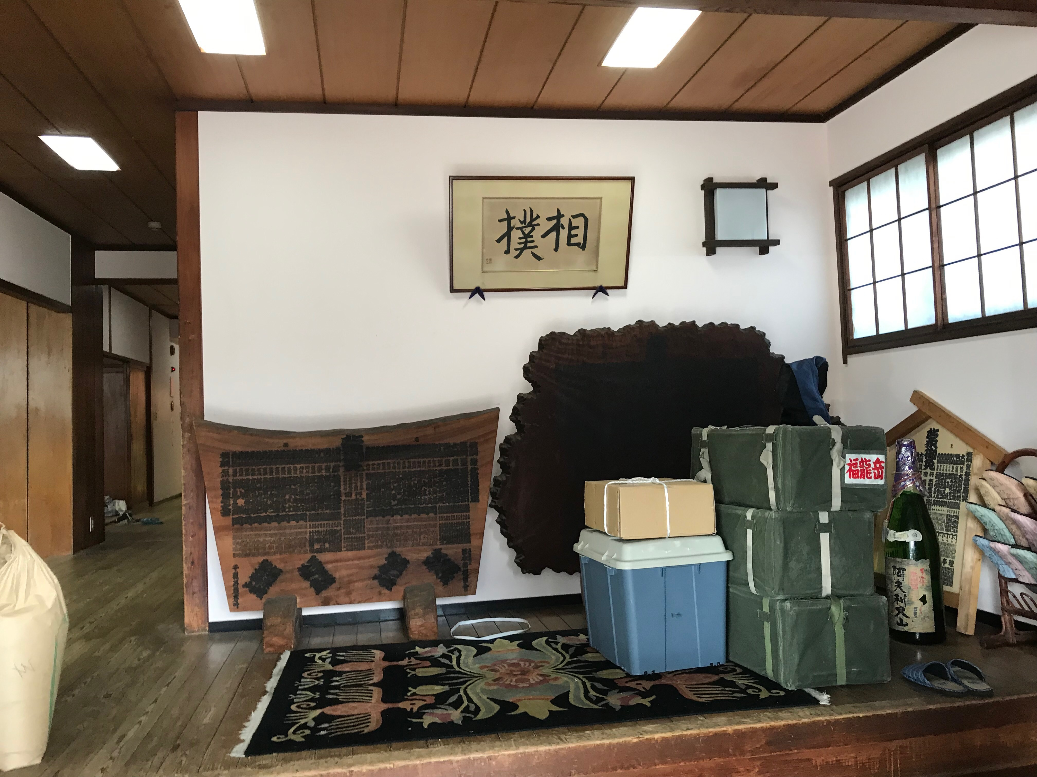 Front room of Dewanoumi stable